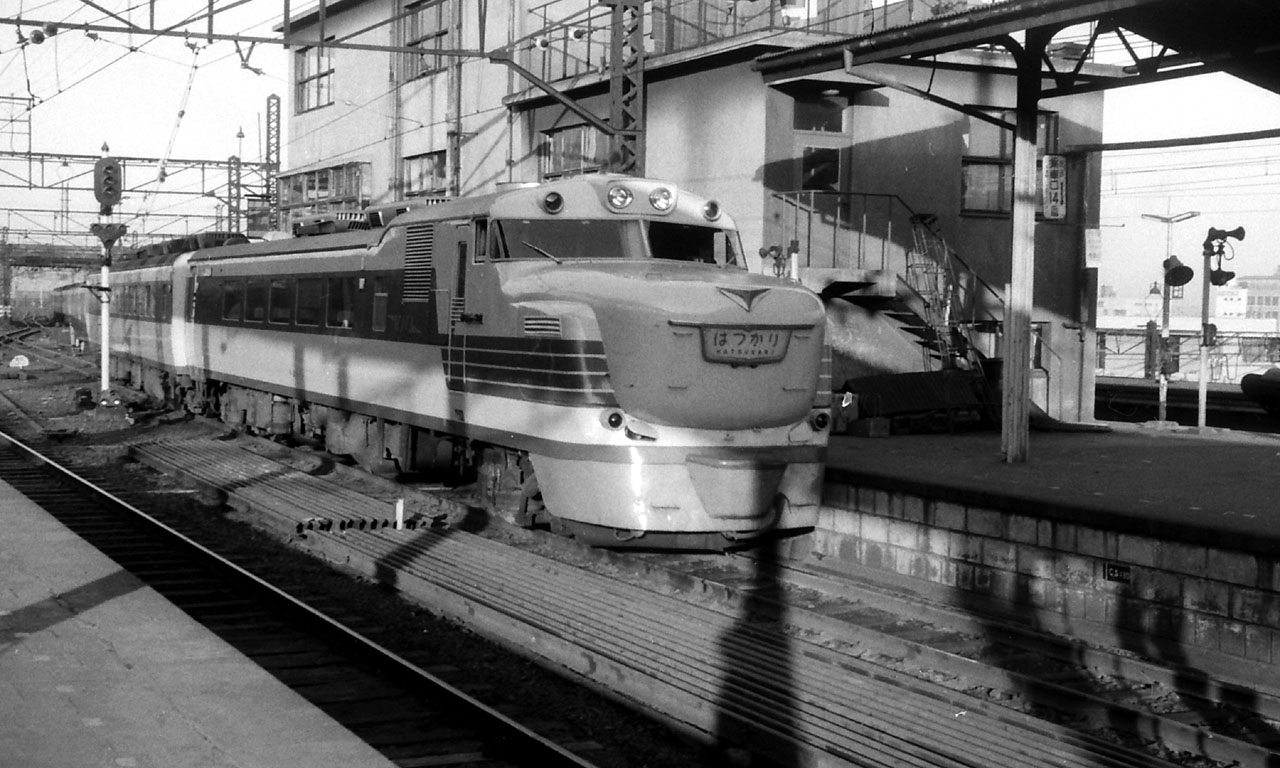 A JNR KiHa 81 series DMU arriving at Ueno Station in Tokyo on a Hatsukari limited express service from Aomori